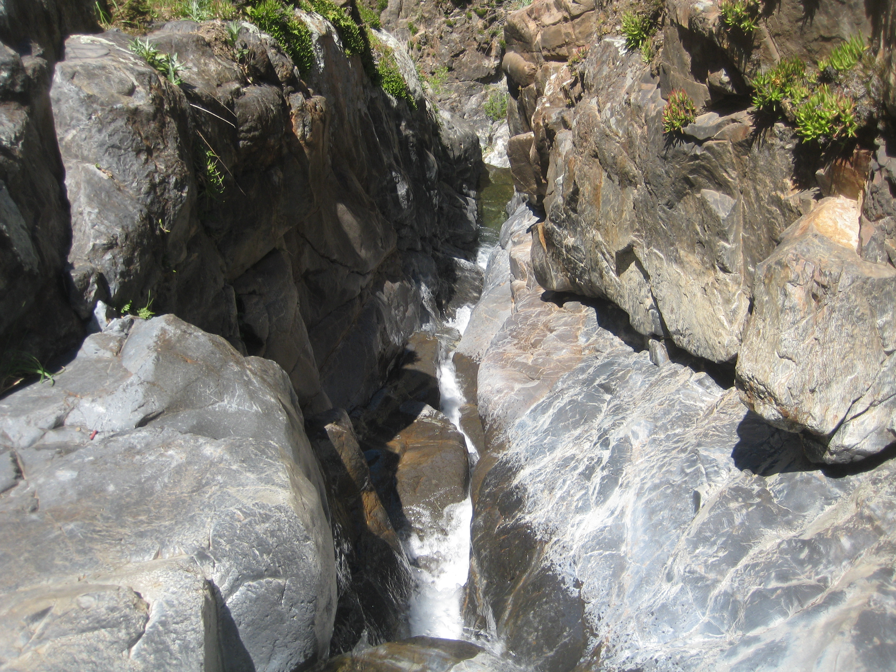 Slot canyon known as "single track rut" located below Upper Hot Spring falls